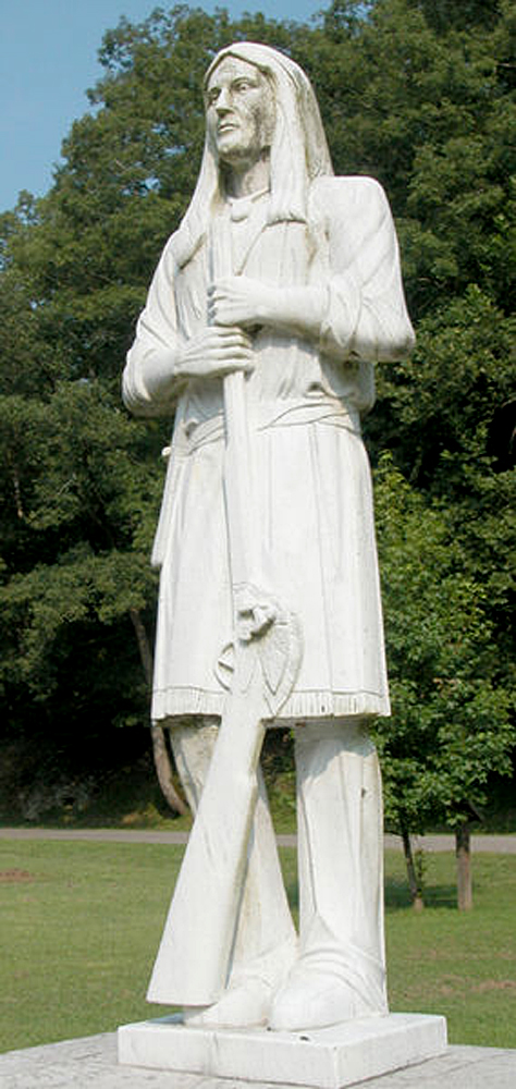 Description: Logan's Statue in Logan, West Virginia Creator: User:Pollinator Uploader: User:Nikater Date: Dec 24 2004 Other Versions: no License status